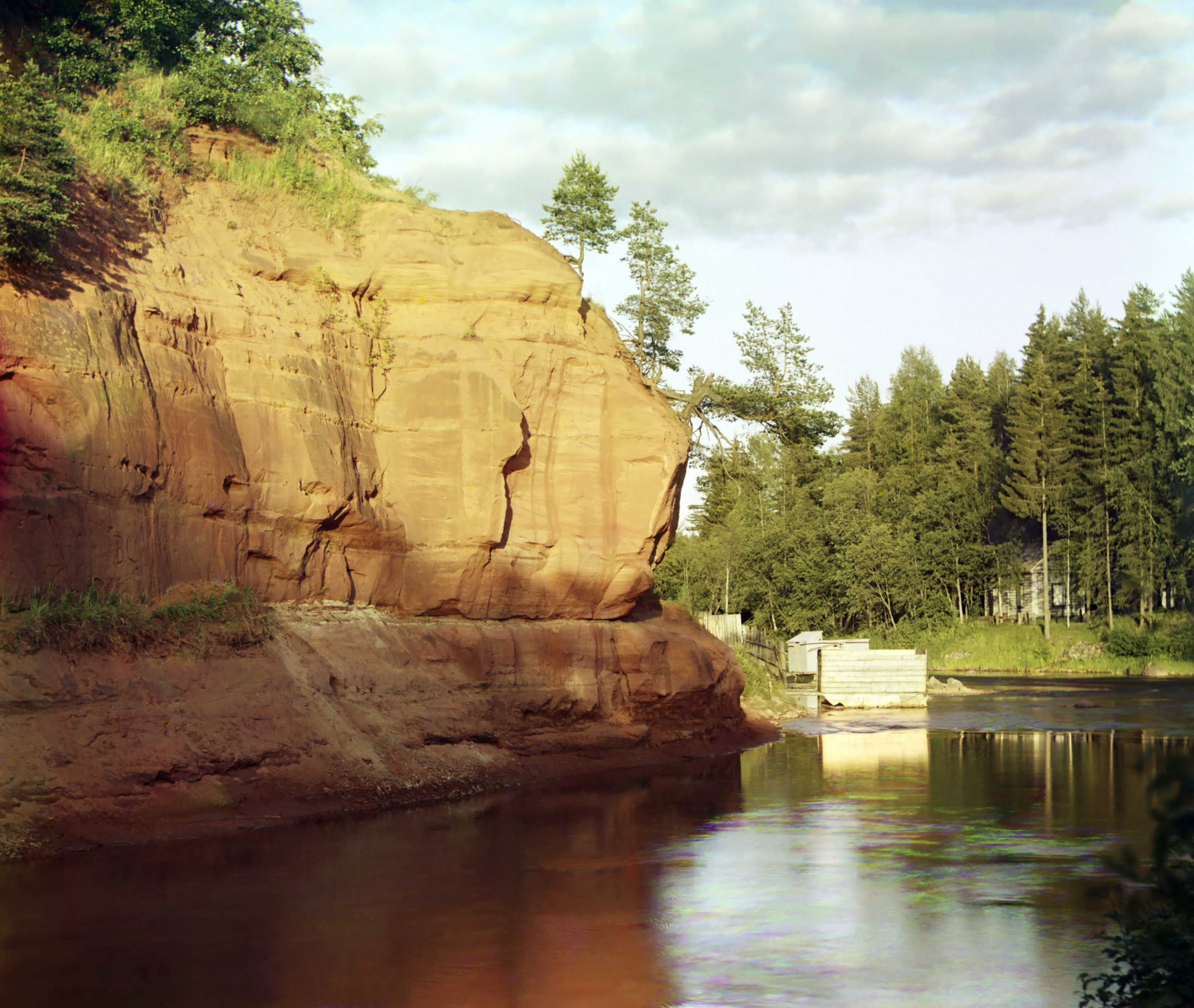 Original Description: On the Ordezh River near the Siverskaia Station, Saint Petersburg province.